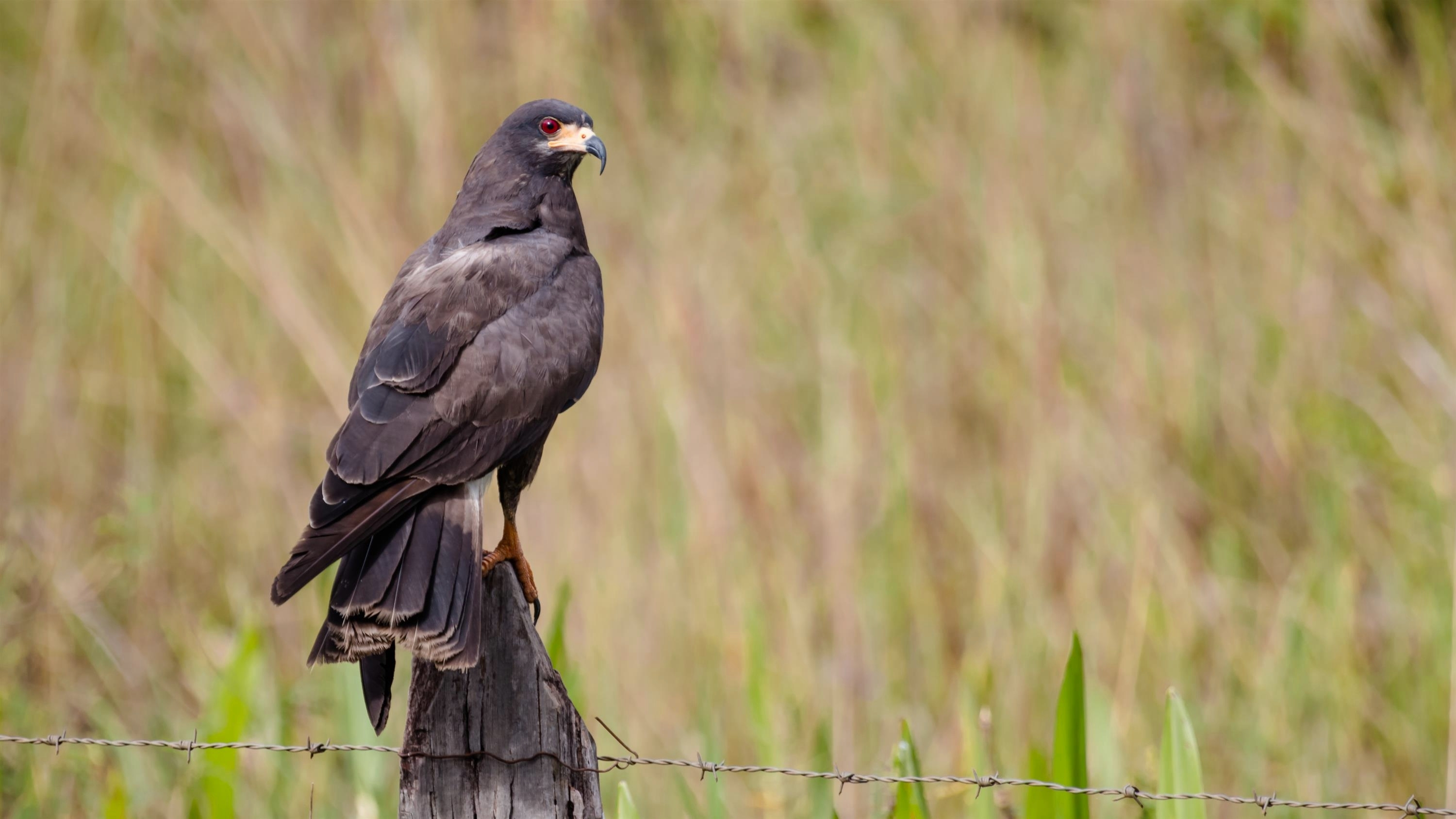 Snail kite (Rostrhamus sociabilis) on the Transpantaneira.